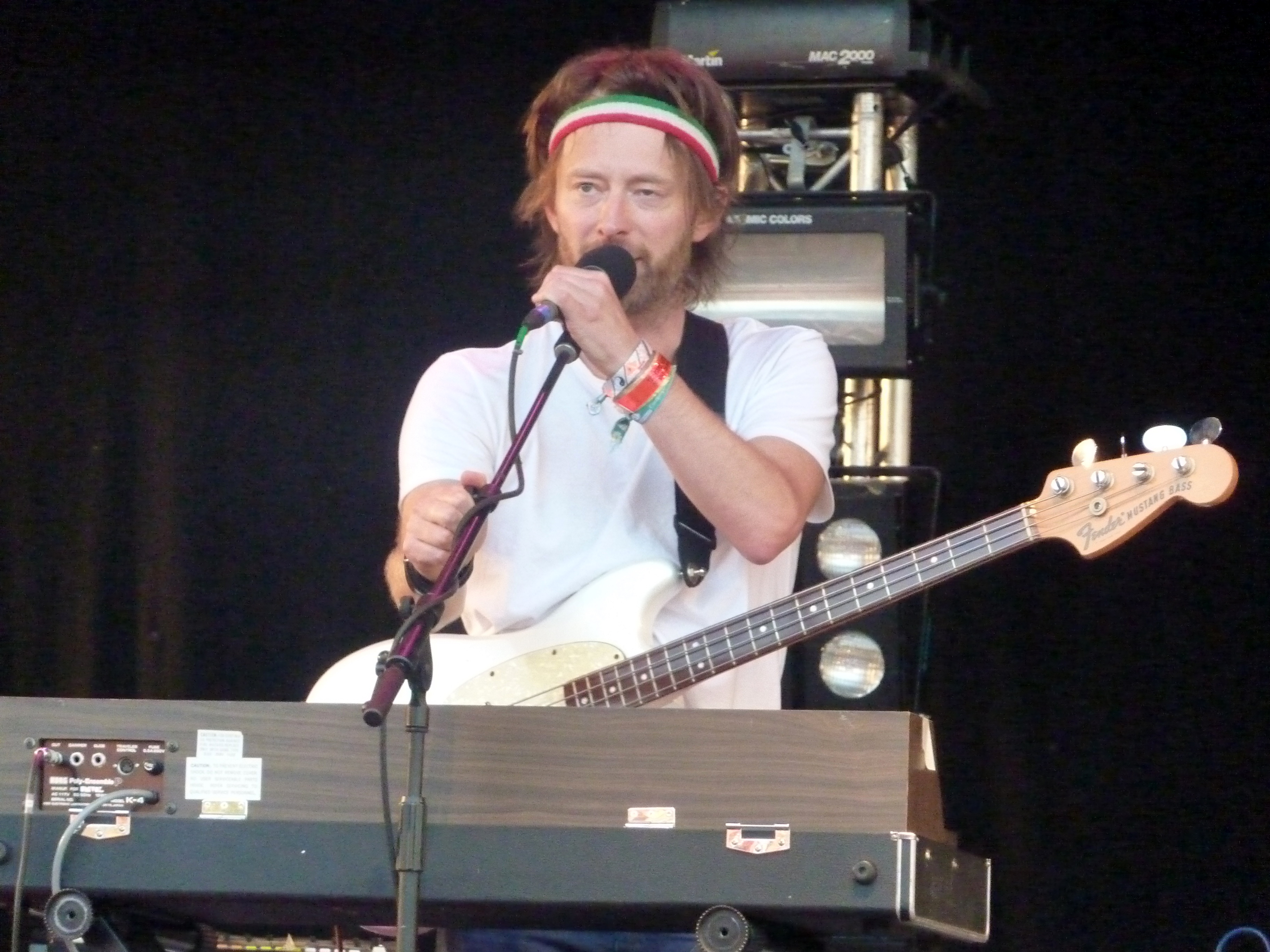 Thom Yorke performing live at Glastonbury Festival in 2010.